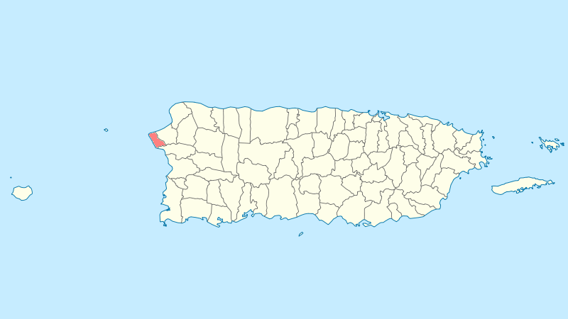 Municipal locator of Puerto Rico